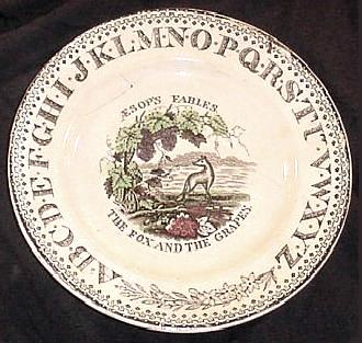 The fable of the fox and the grapes on a children's alphabet plat.